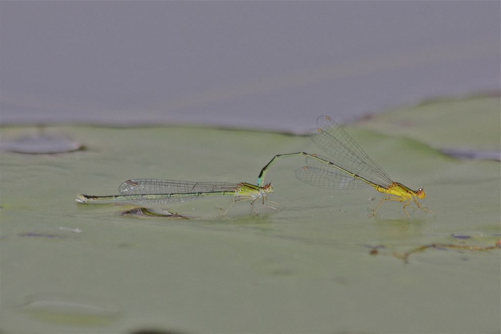 Vesper Bluet (Enallagma vesperum), Gale Meadow, Vermont